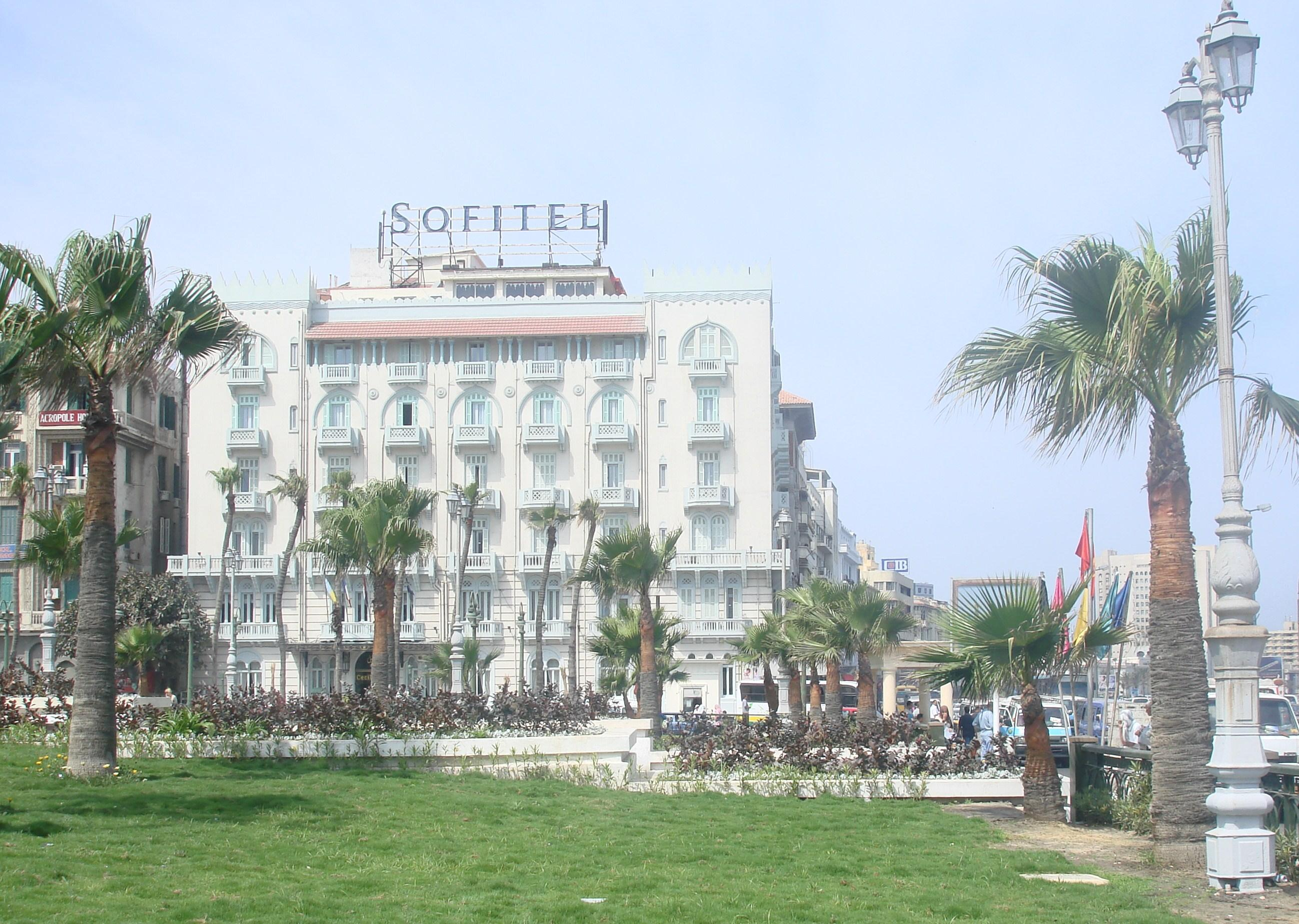 Cecil Sofitel hotel in Alexandria